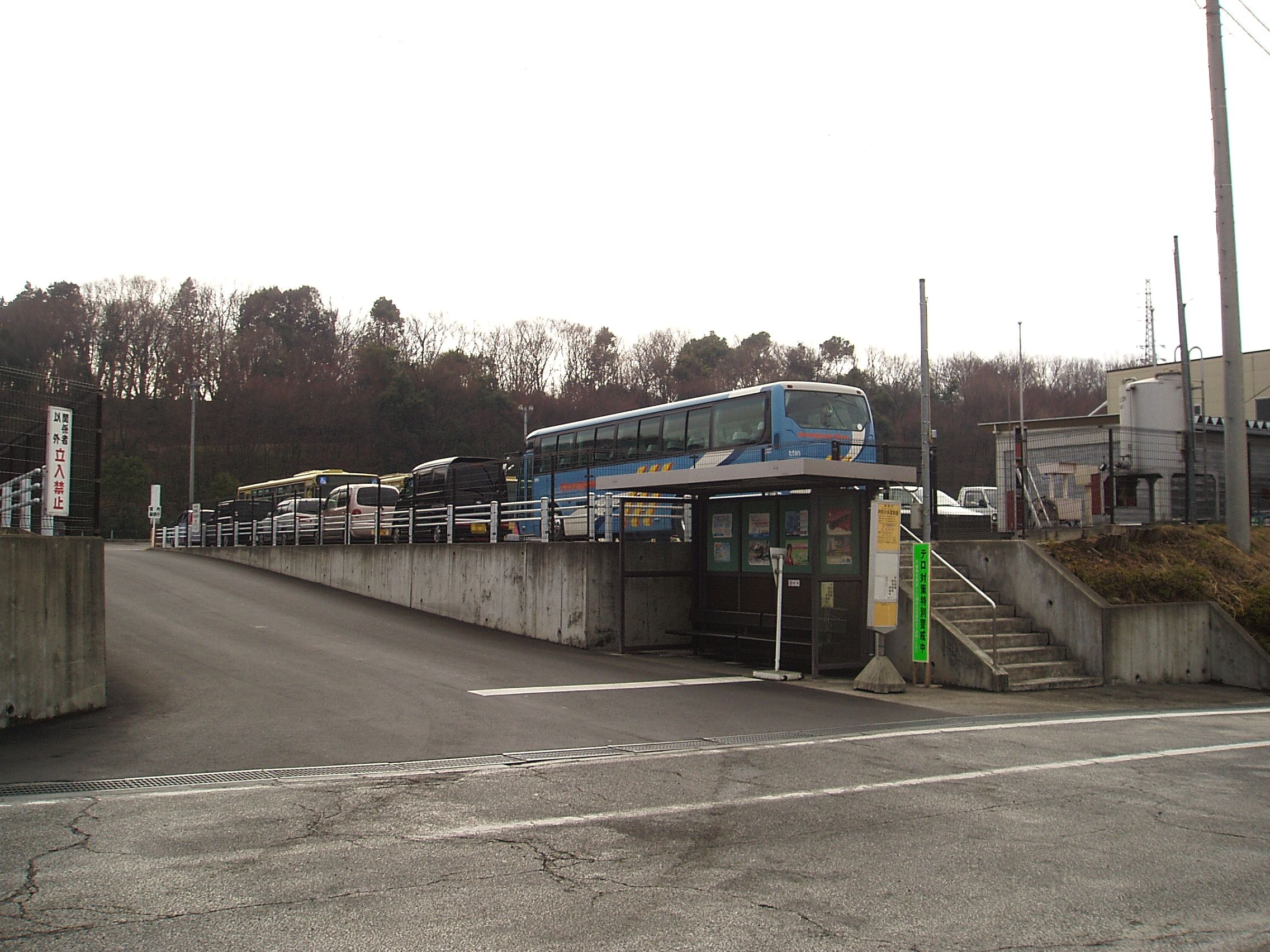 Kanachu Tama Branch